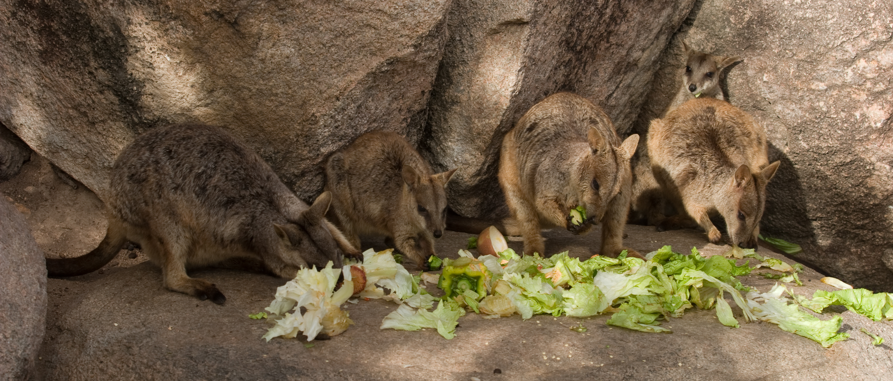 A number of Rock Wallabies feeding on Magnetic Island. Taken by myself with a Canon 10D and 70-200mm f/2.8L lens.